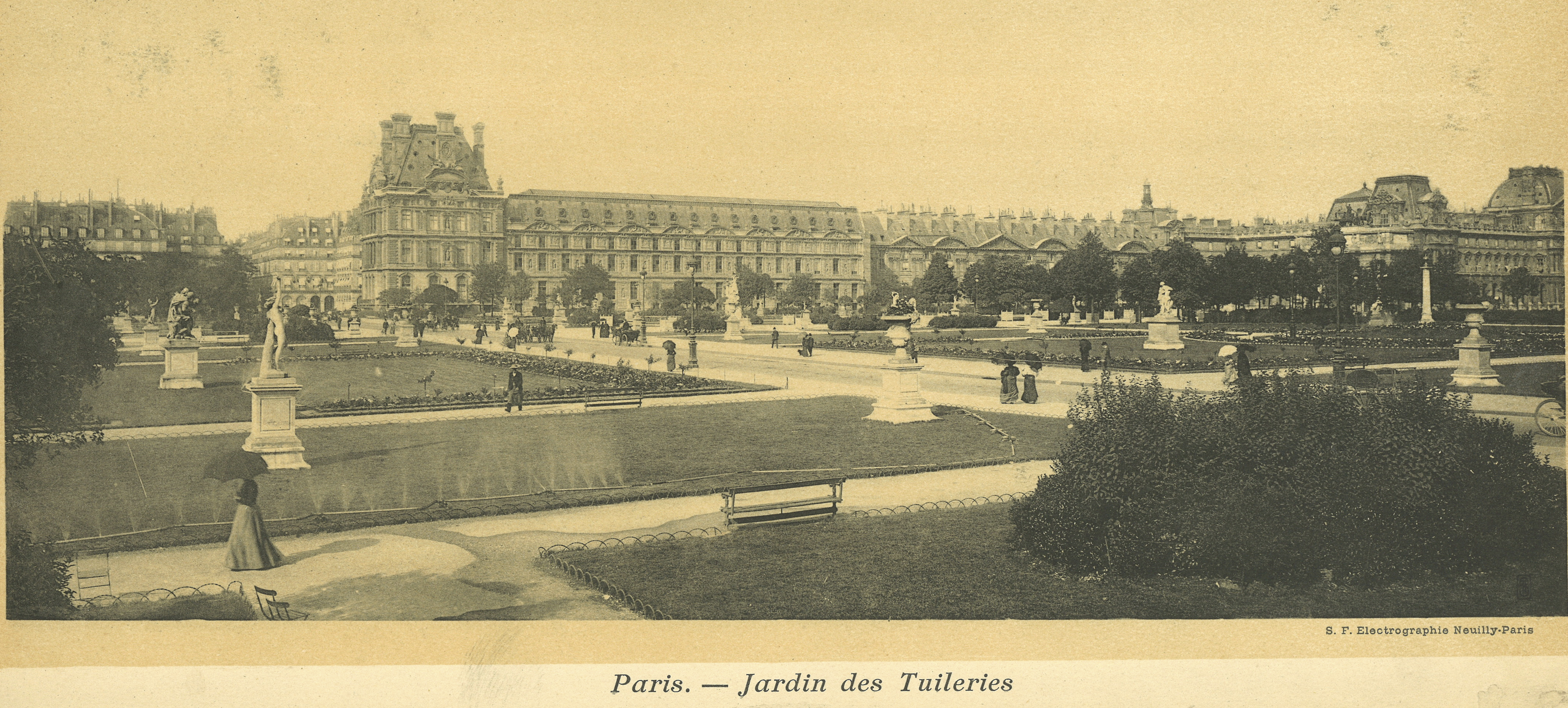 Turn of the century photo